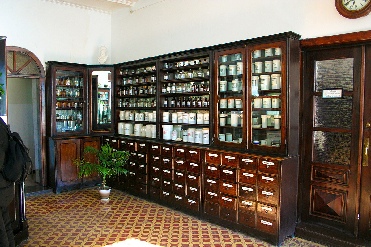 Pharmacy museum